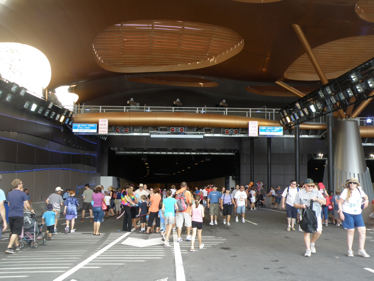 Clem Jones Tunnel Open Day - Bowen Hills Southbound Entrance - 28 February 2010